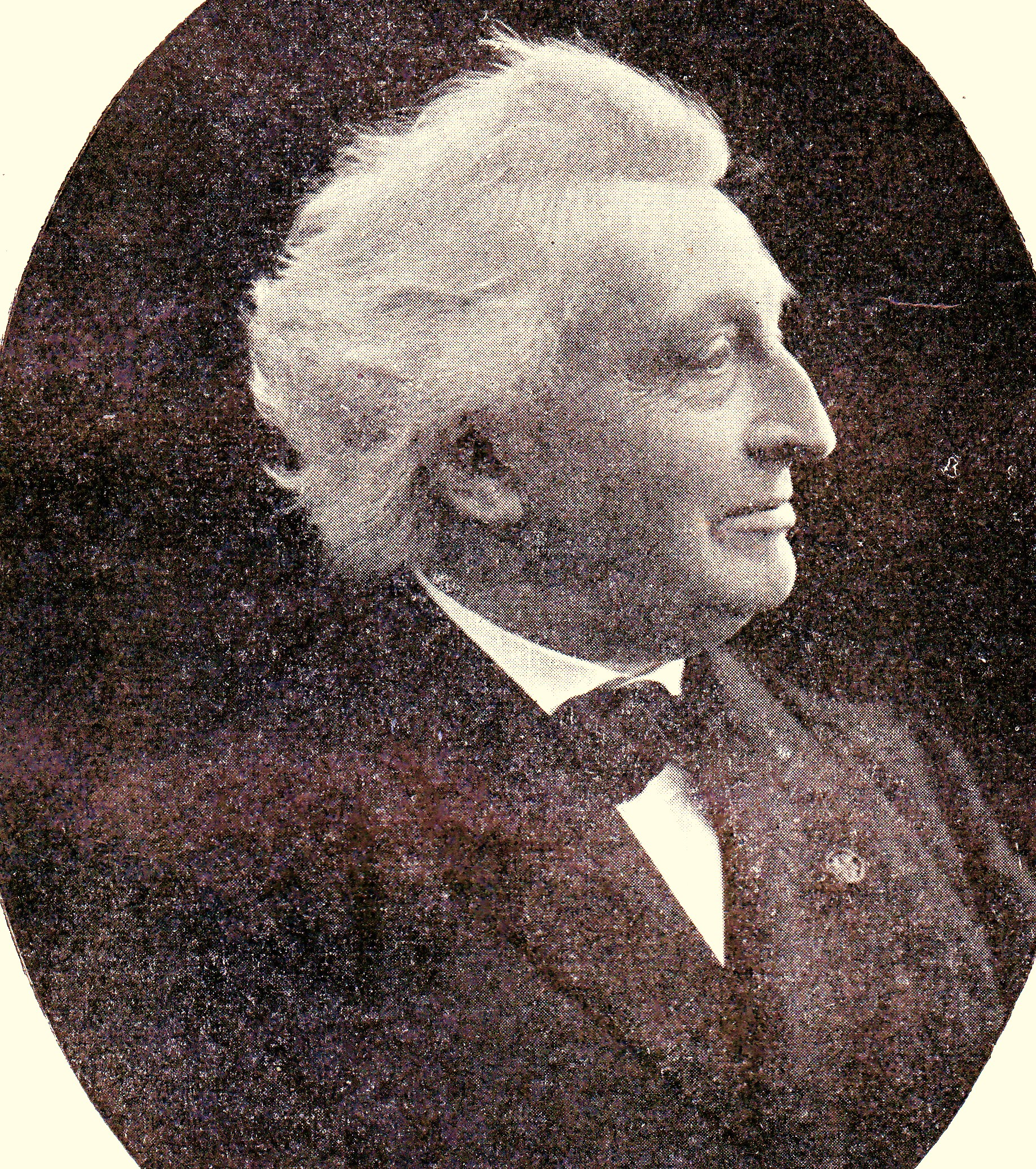 Mr. A. van Delden